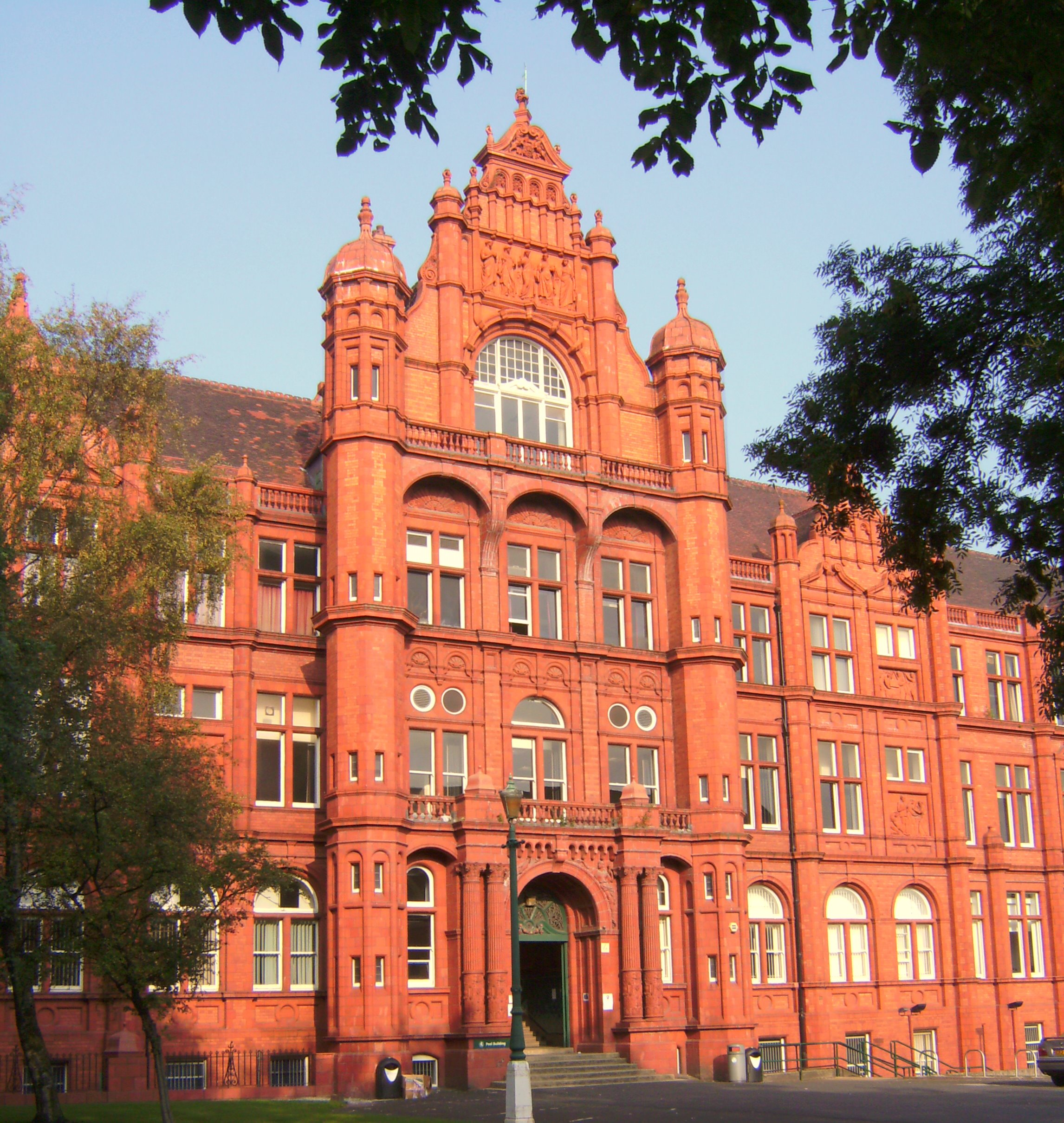 Peel Building University of Salford Built as The Royal Technical Institute, Salford